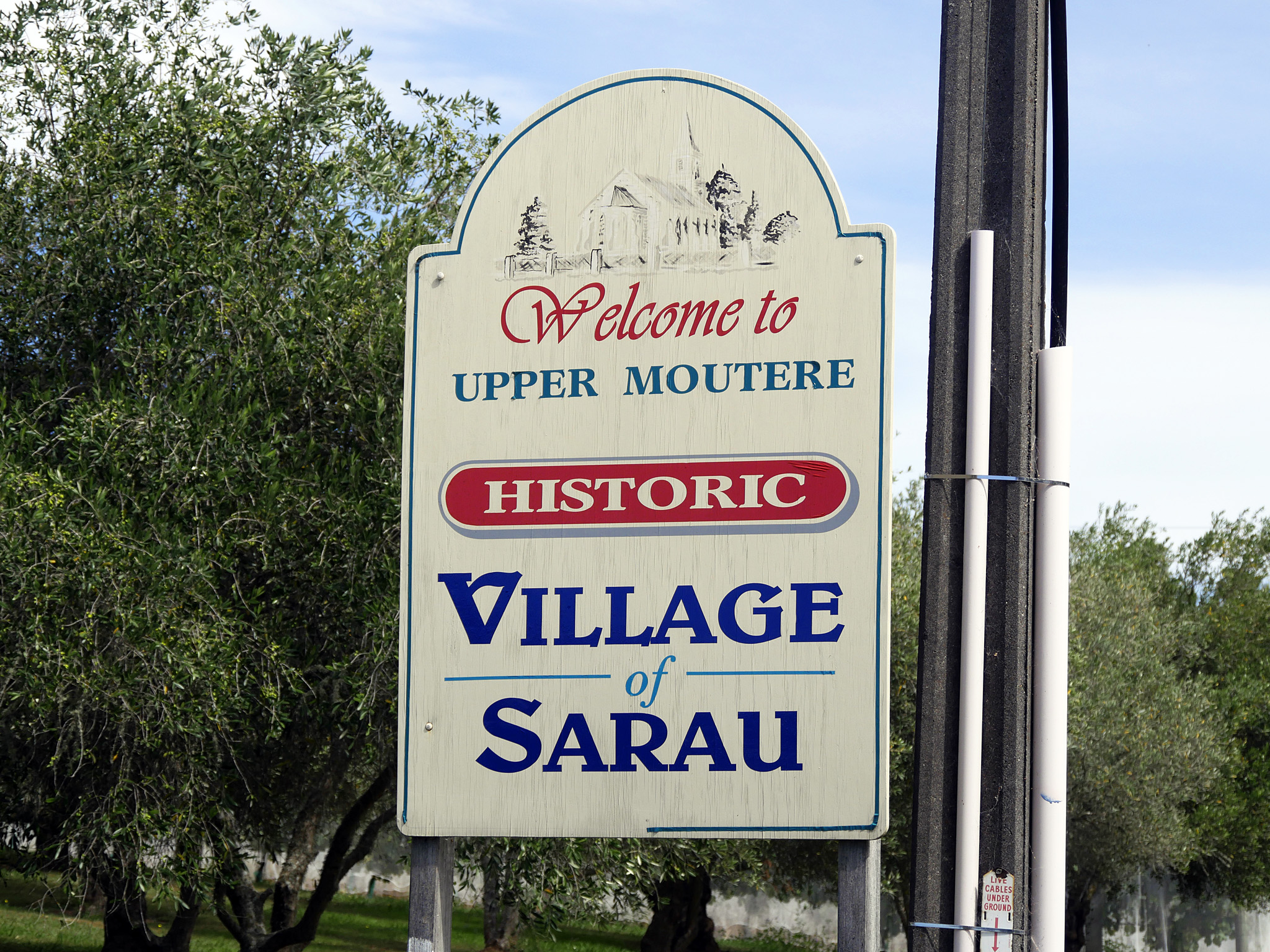 Historic Village of Sarau Sign, Upper Moutere, Tasman District, South Island, New Zealand